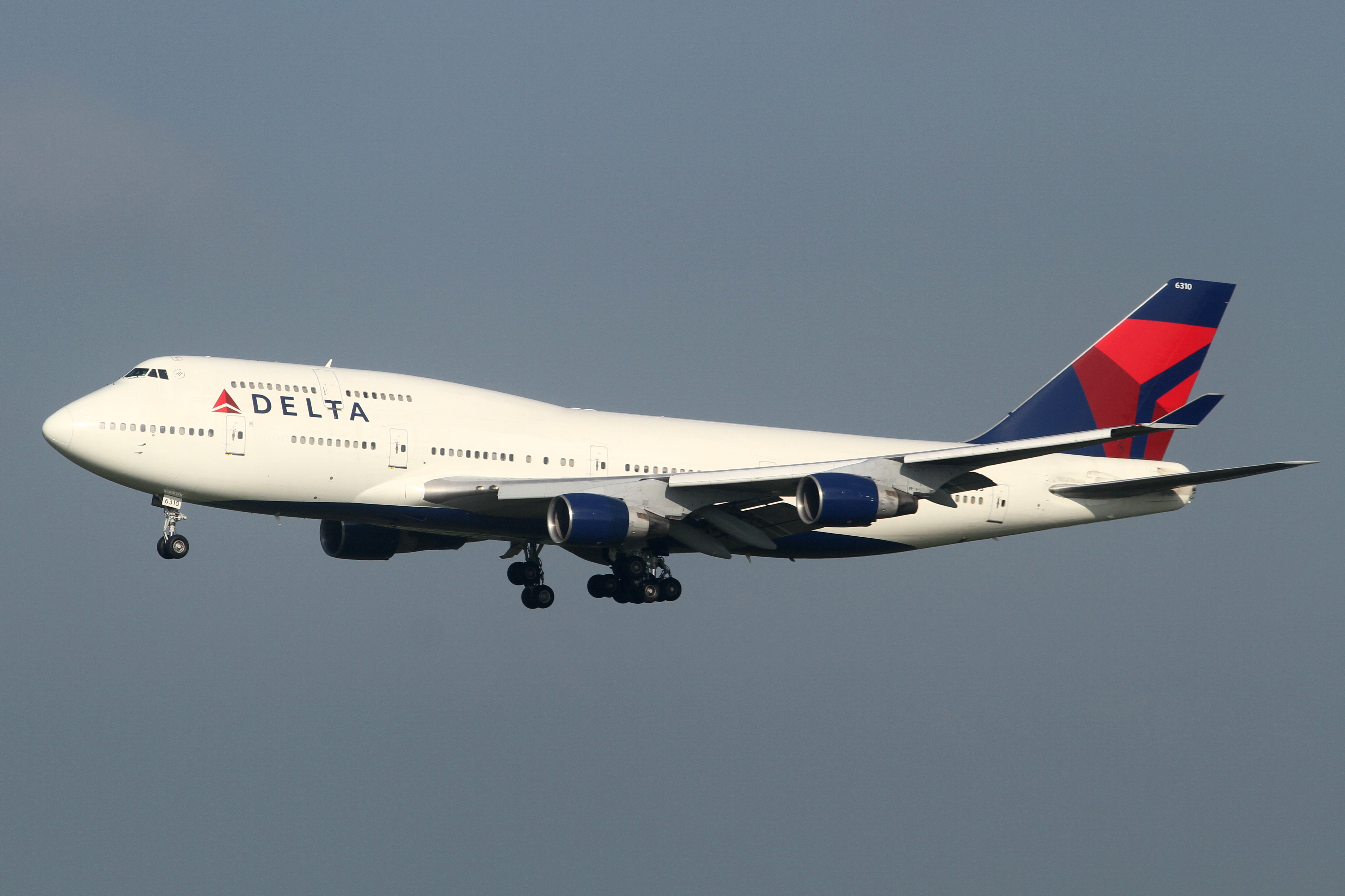 Narita International Airport, Boeing 747-451, c/n:24225, Delta Airlines